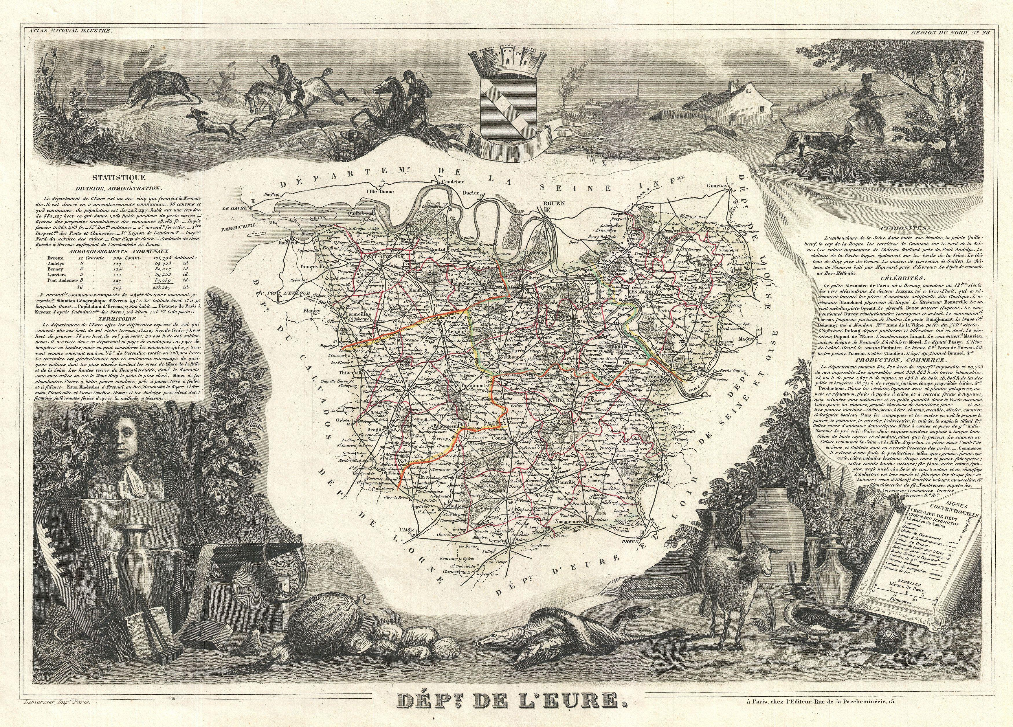 This is a fascinating 1852 map of the French department of Eure, France. This region of France is home to Giverny, where impressionist Claude Monet’s home and garden can be seen. The whole is surrounded by elaborate decorative engravings designed to illustrate both the natural beauty and trade richness of the land. There is a short textual history of the regions depicted on both the left and right sides of the map. Published by V. Levasseur in the 1852 edition of his Atlas National de la France Illustree.